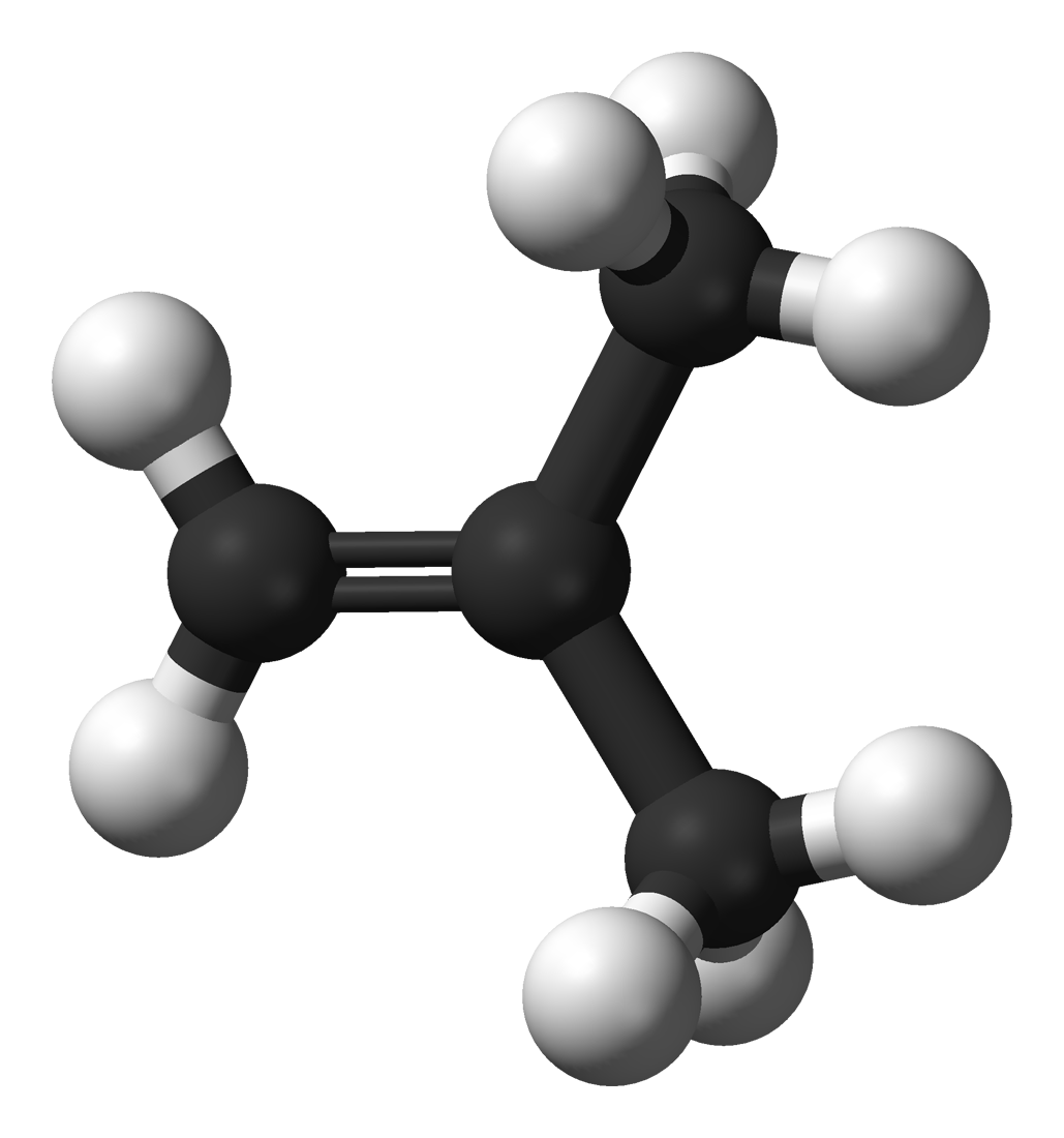 Ball-and-stick model of the isobutylene molecule